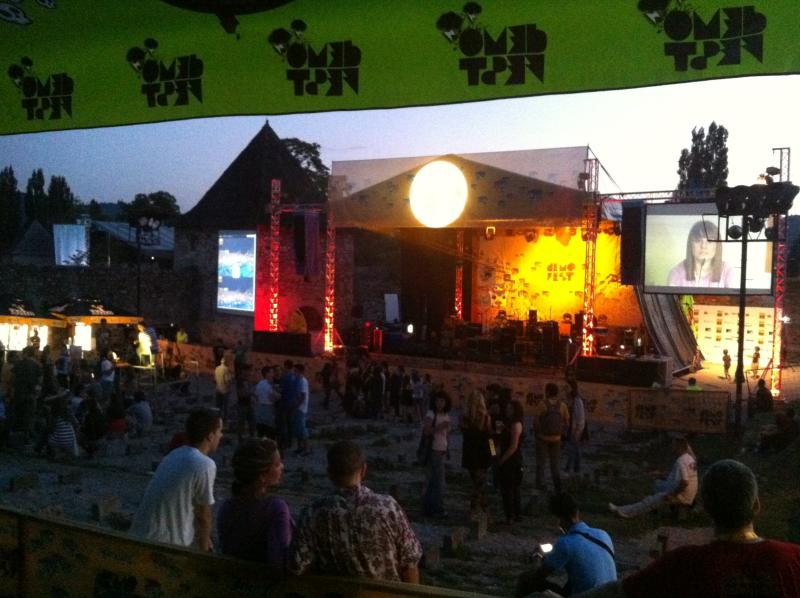 26 July 2012 - Evening